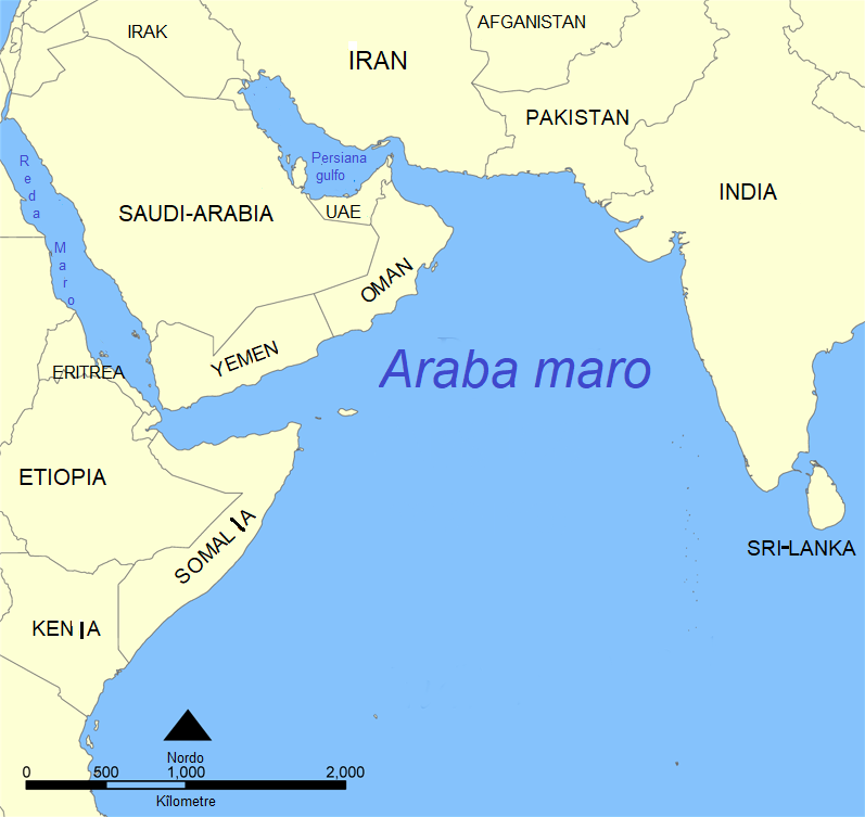 Map of the Arabian Sea Ido: Mapo pri l'Araba maro